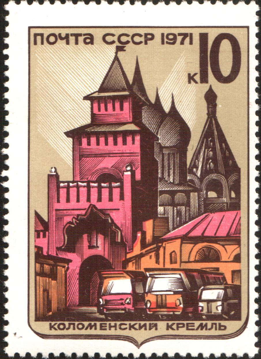 USSR stamp: Kolomna Kremlin and Buses. Series: Historical Buildings of Russia